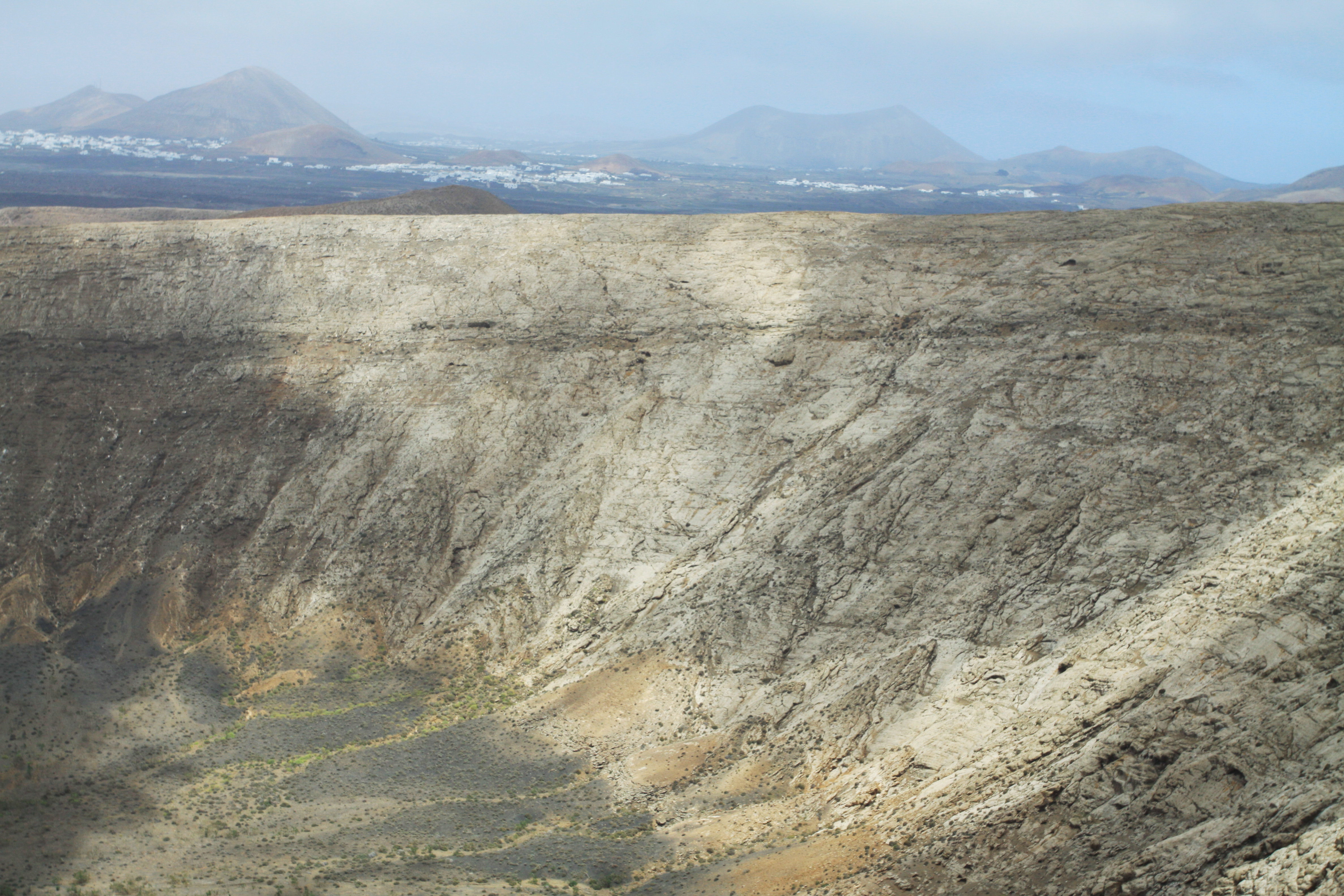 Tuff ring Caldera Blanca on Lanzarote, the Canary Islands, Spain